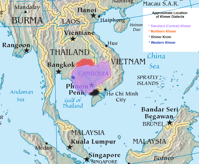 This is a map of the approximate locations where various dialects of Khmer language is spoken. The map I started with is Image:Asia-map.png, a freely available image in the Public Domain.